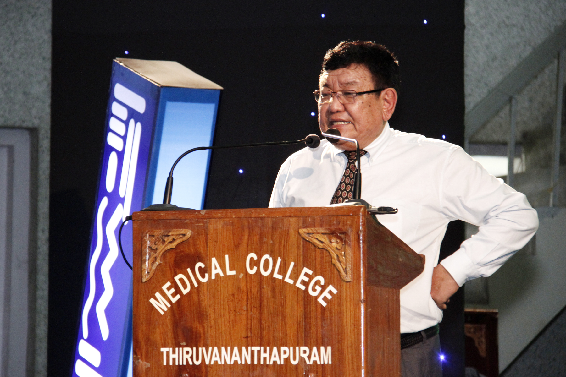 Dr. Sanduk Ruit speaking at the Erudite Conclave 2011 organised by class of 2005, Medical College, Thiruvananthapuram, India.